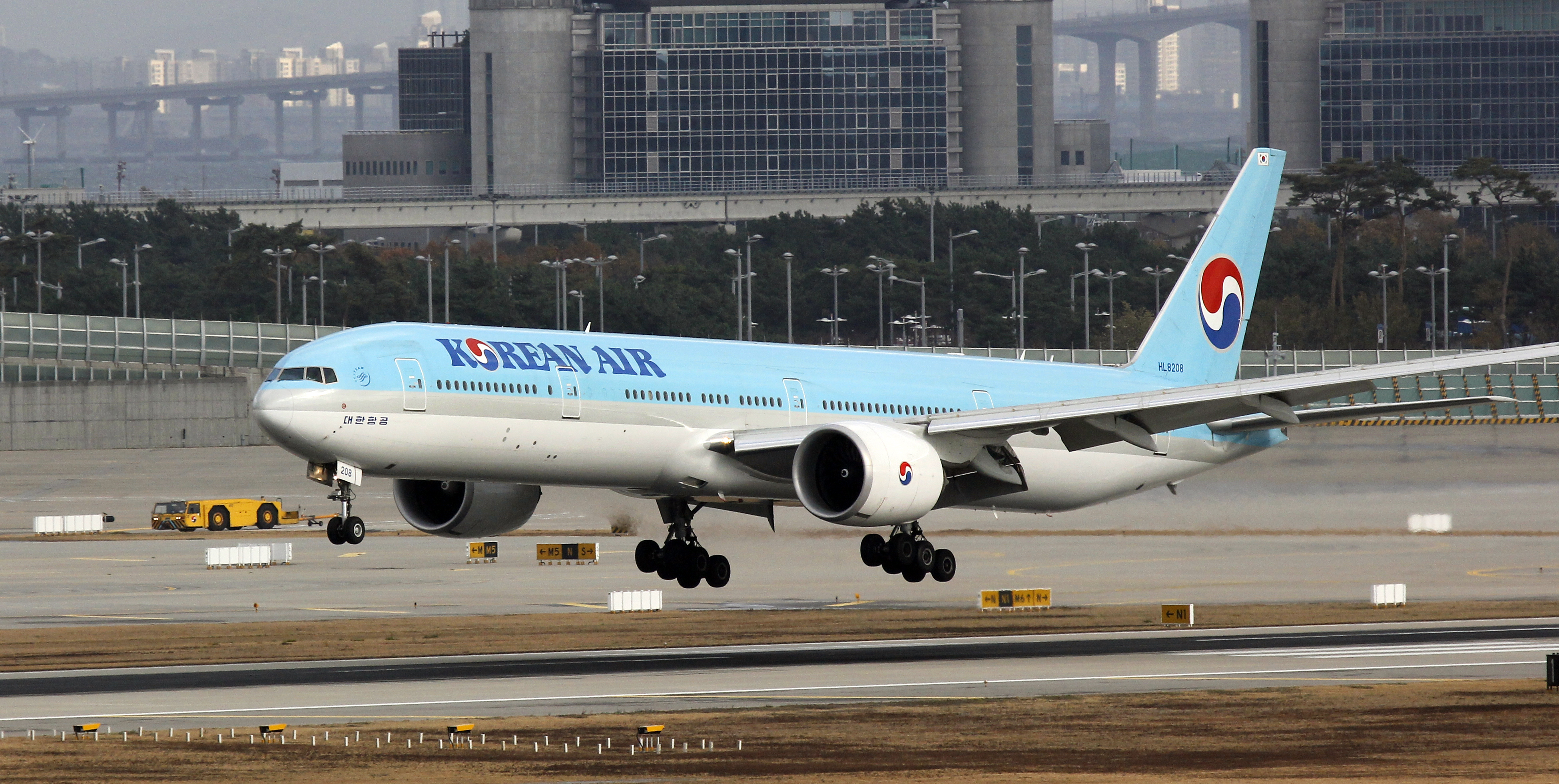 HL8208 @ICN